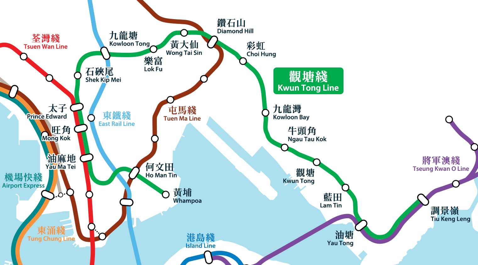 MTR Kwun Tong Line Geograpical Map